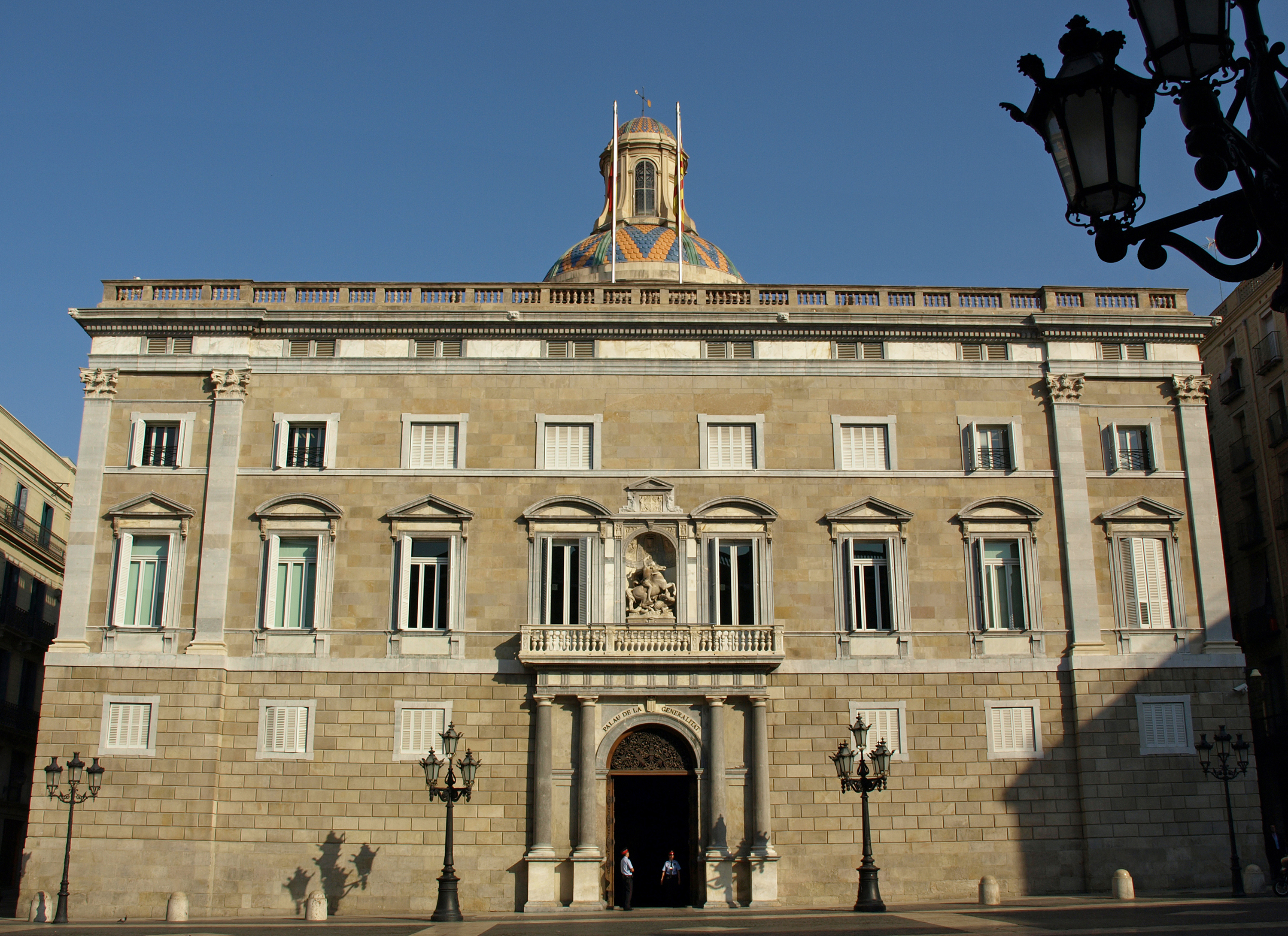 The Palau de la Generalitat de Catalunya houses the offices of the Presidency of the Generalitat de Catalunya. It is one of the few buildings of mediaeval origin in Europe that still functions as a seat of government and houses the institution that originally built it. It is located in the Gothic Quarter of Catalonia's capital, the city of Barcelona.